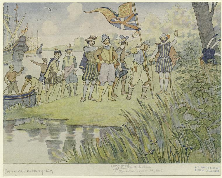 Print of Captain John Smith landing in Jamestown, Virginia, 1607. From 'The Story of Pocahontas and Captain John.' Courtesy of the New York Public Library.